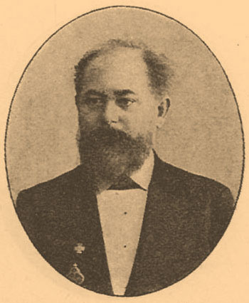 Illustration from Brockhaus and Efron Encyclopedic Dictionary (1890—1907)